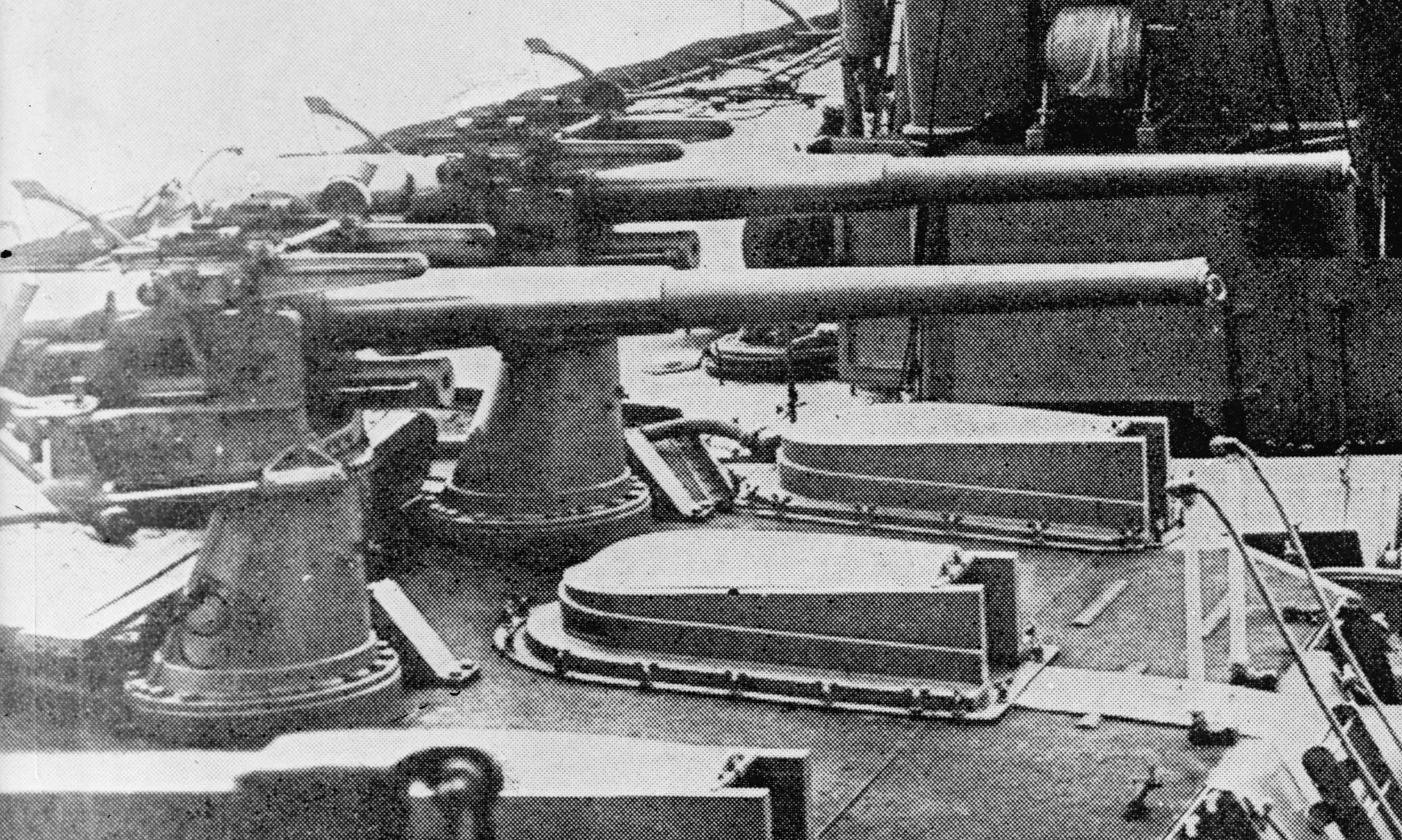 Photograph showing 2 QF 12 pounder 18 cwt guns mounted on the roof of X turret, HMS Dreadnought (1906).